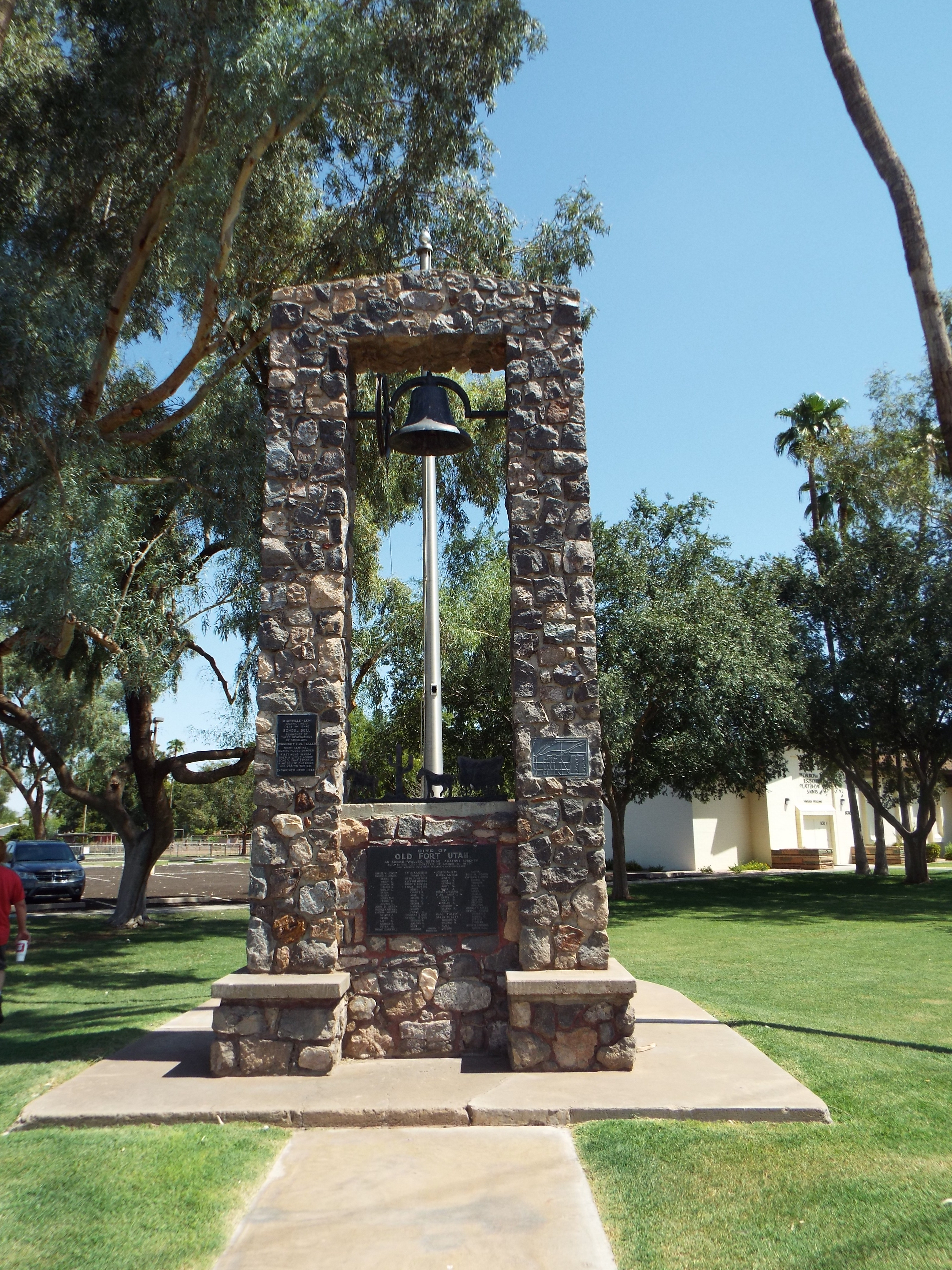 What remains of the Old Fort Utah built in 1877 in Mesa, Az